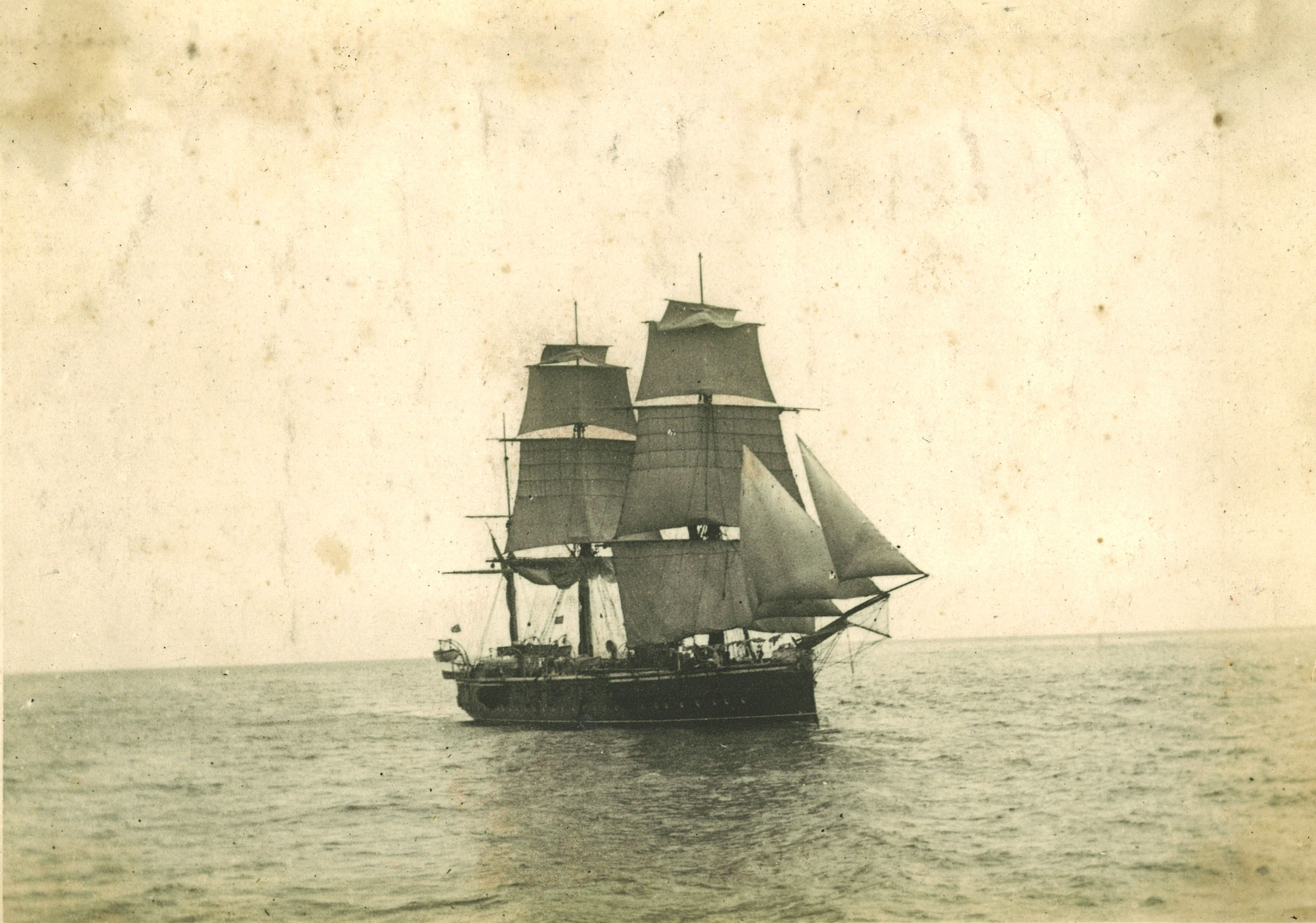 HMS Champion was one of nine Comus-class corvettes of the Royal Navy, built in the late 1870s and early 1880s to a design by Nathaniel Barnaby. Champion was one of three in the class built by J. Elder & Co., Govan, Scotland and was launched on 1 July 1878.[2] She was the third vessel under this name in the Royal Navy..